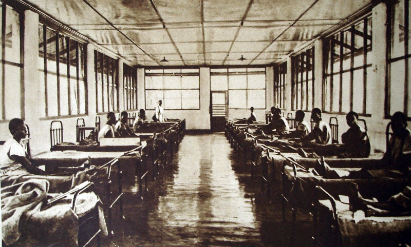 Hospital for the natives in Elisabethville, Katanga, Belgian Congo. 1920s.